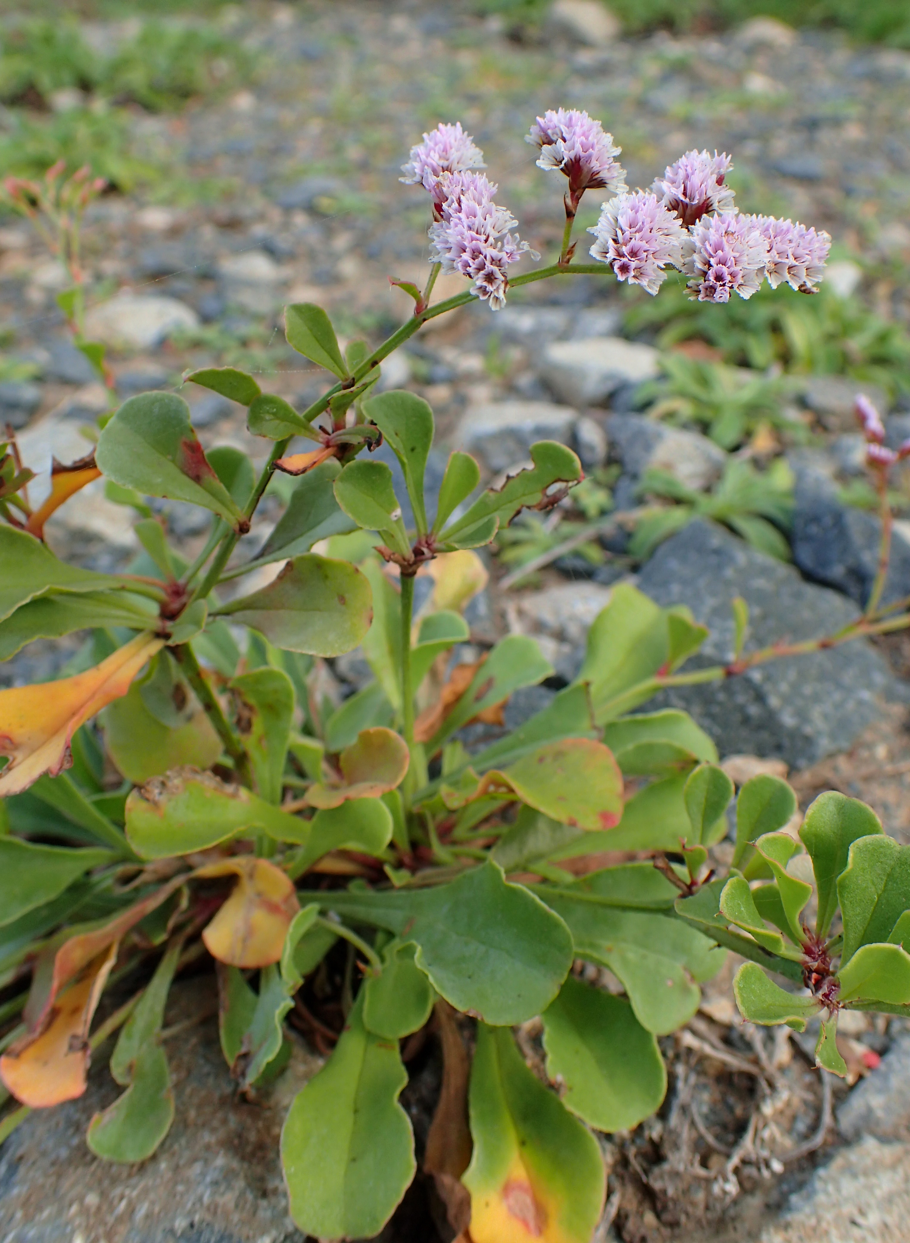 Limonium pectinatum near Roque de los Animas, Tenerife, Canary Islands